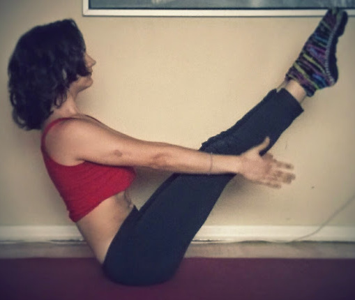 A girl doing a yoga pose